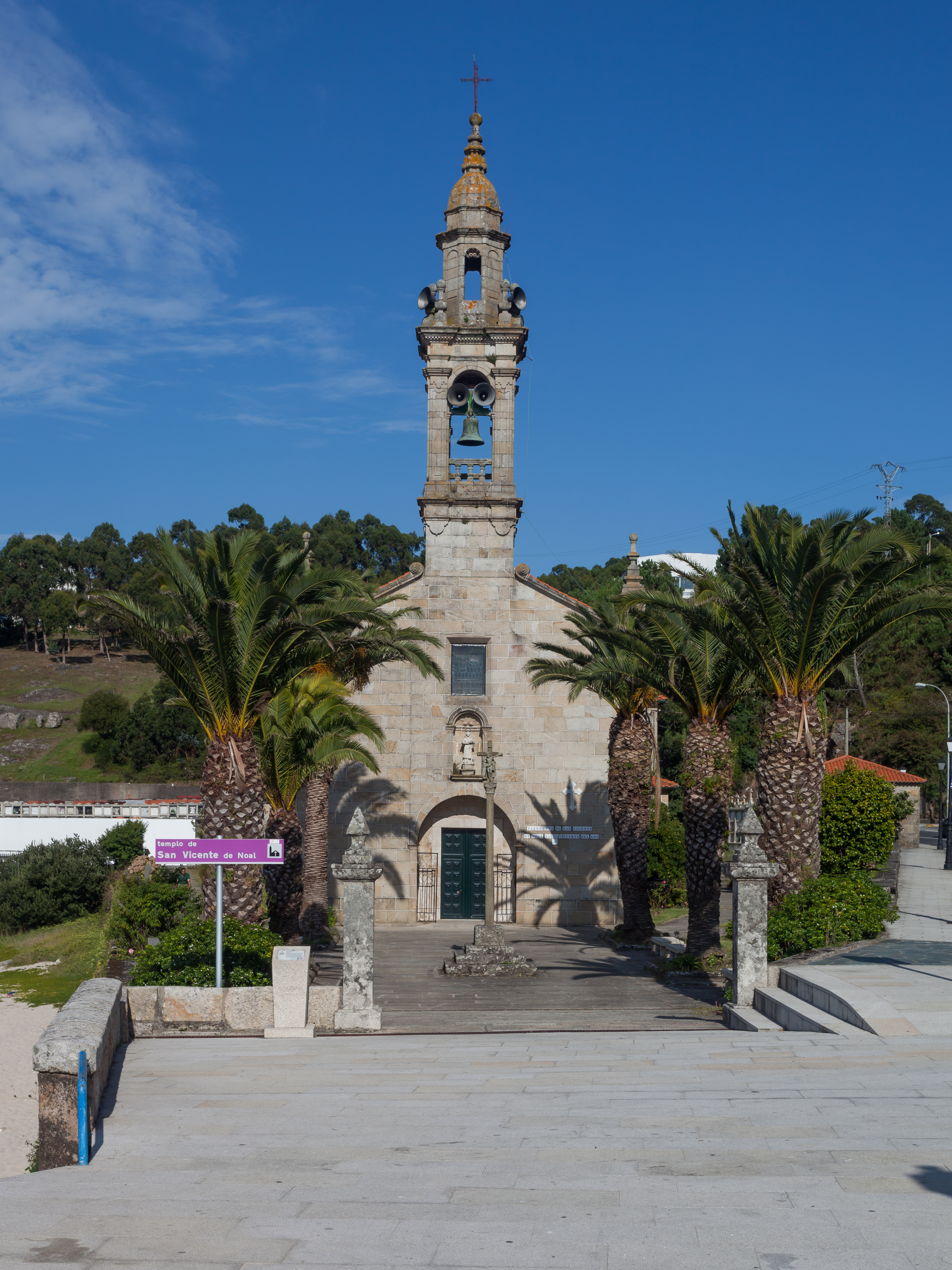 Church of San Vicente de Noal. Porto do Son. Galicia (Spain).